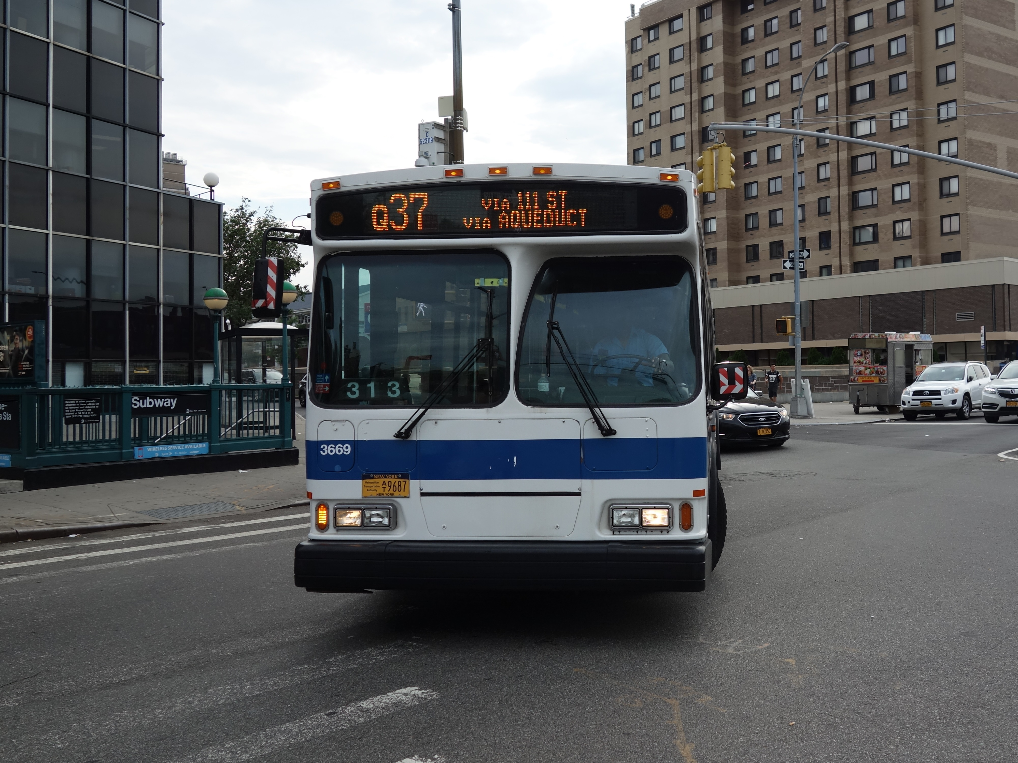 A South Ozone Park-bound Q37 bus turning from Union Turnpike onto the Queens Boulevard service road (Kew Gardens Road) in Kew Gardens / Forest Hills, Queens. Looking from Newcombe Square.